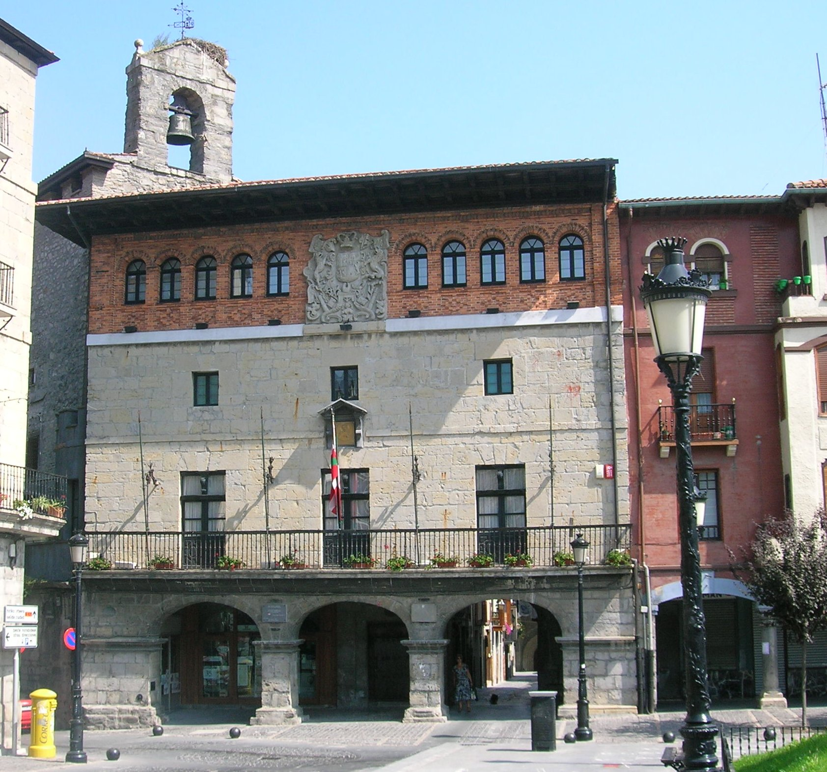 Urduña-Orduña city hall, Biscay.